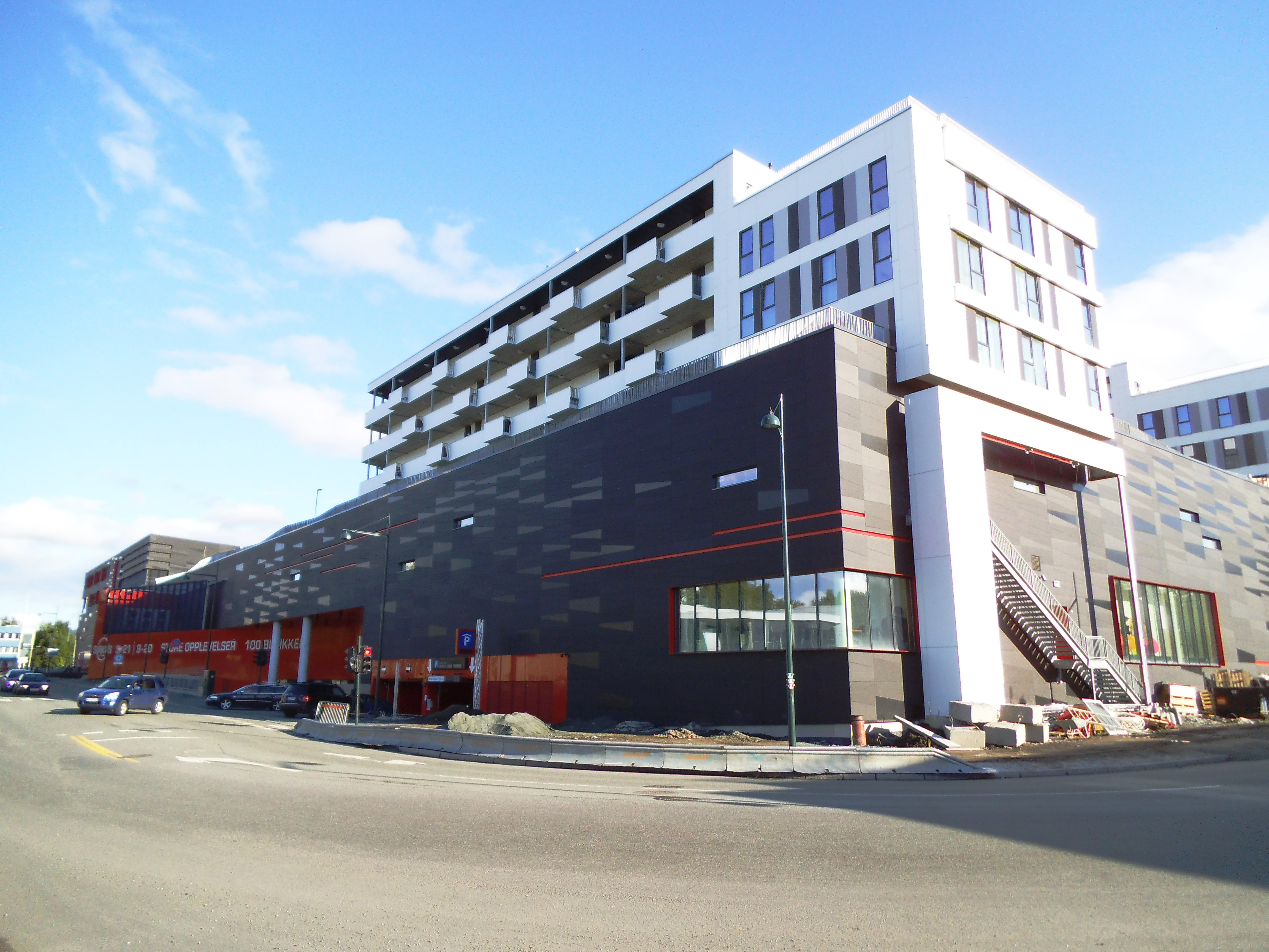 Sirkus Shopping, a shopping mall in Trondheim.